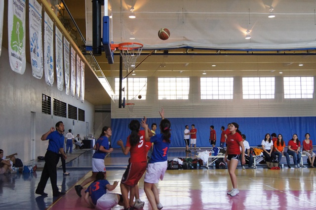 Basketball game as part of the Borregos de Plata event for business students at ITESM-Campus Ciudad de Mexico